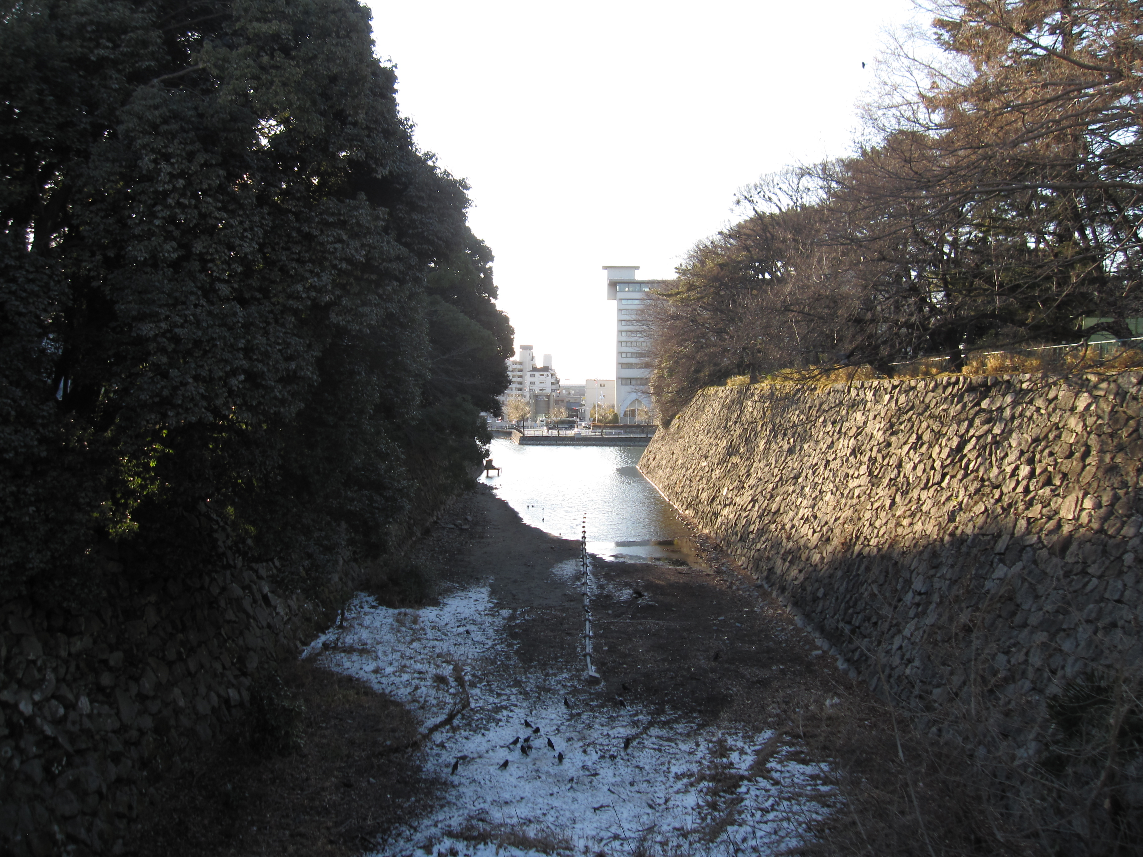 In places such as the Ofukemaru and Nishinomaru of Nagoya Castle, the moat comes in close to the castle wall. This is called the cormorant's neck because it is long and thin. This was done to increase the defendability of the castle. Five of these cormorant-neck shaped moats still exist throughout the castle area.